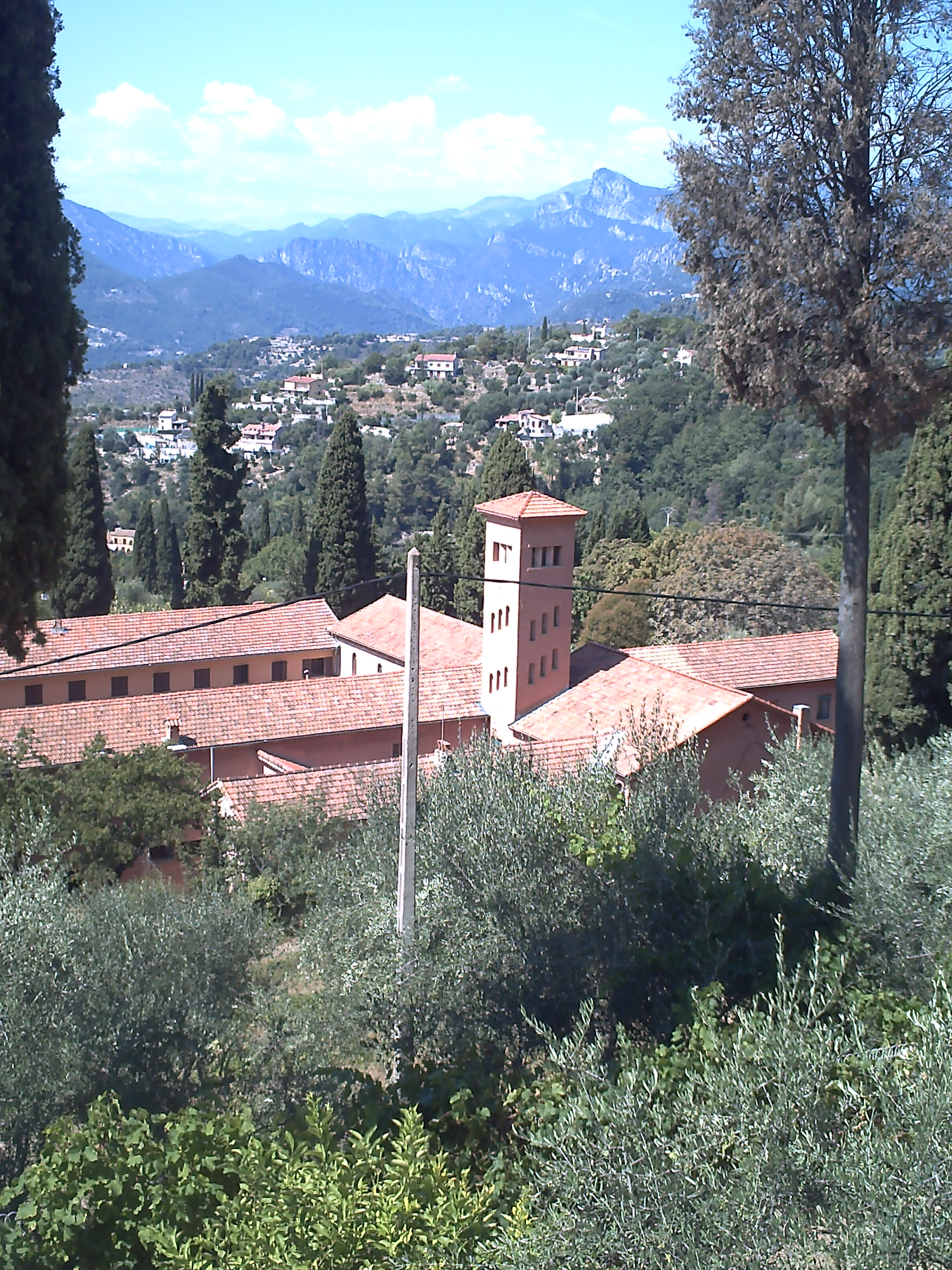 This is the bell tower. The ringing of the bell is frequent, because it does before every Divine Office.